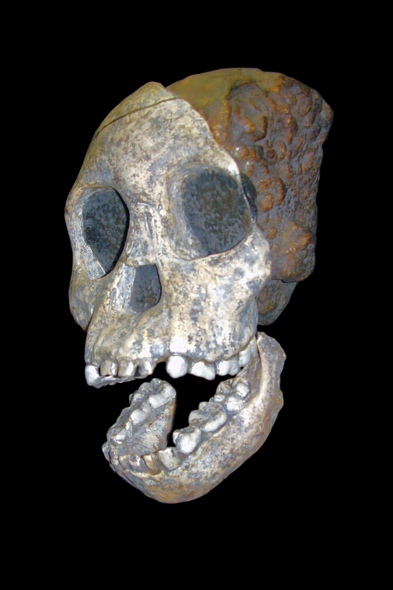 Australopithecus africanus from Taung, replica, Senckenberg-Museum, Frankfurt am Main (Germany)